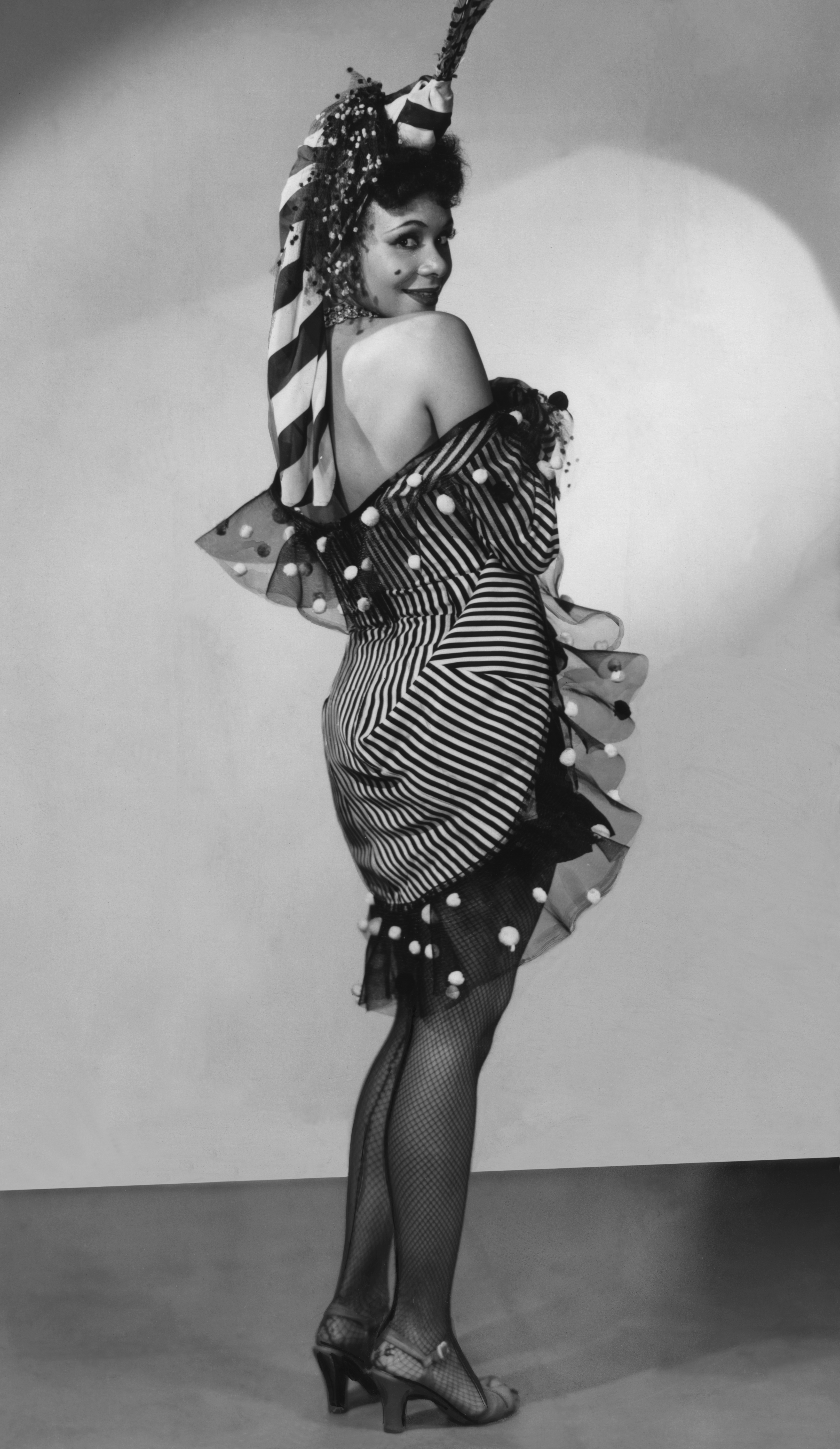 Photograph shows Katherine Dunham, dancer, full-length portrait, facing right, wearing dance costume.